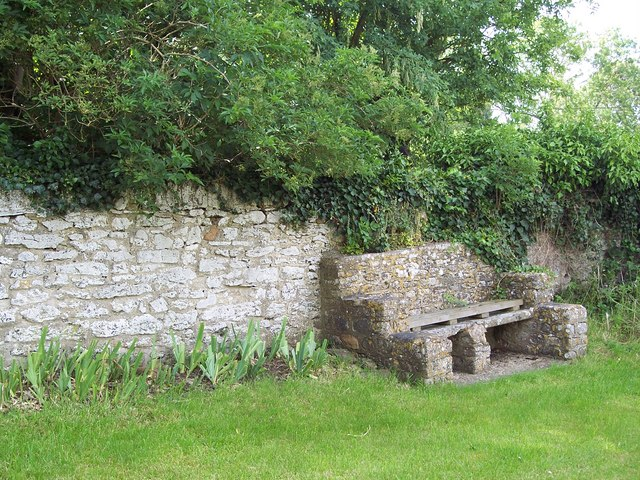 Stone seat at Sevenhampton Sevenhampton may mean “the seven homesteads” or “enclosure of the seven home farms”.